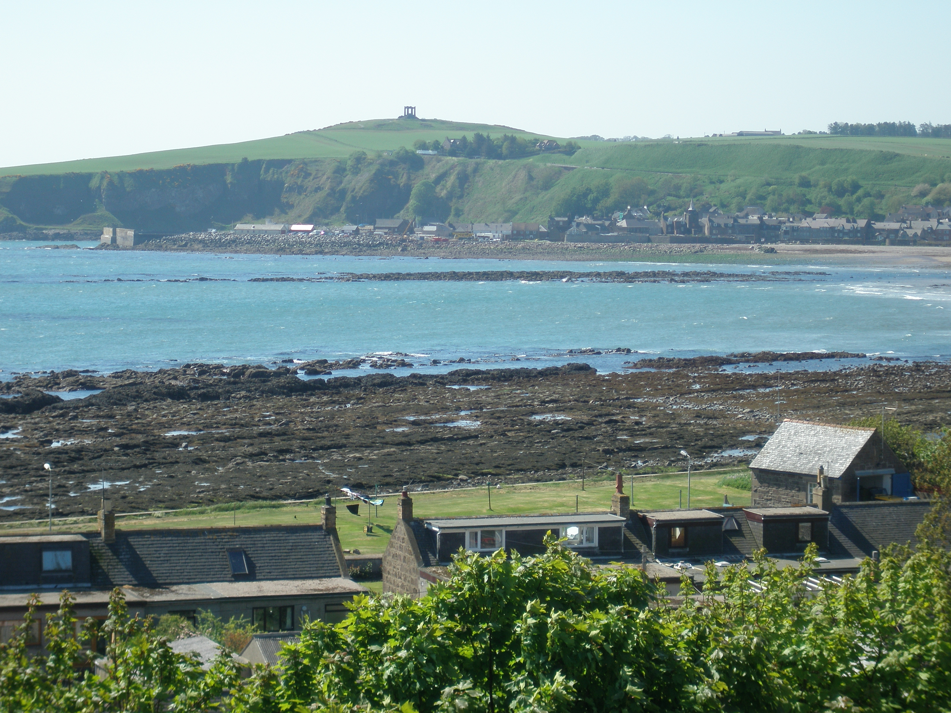 Stonehaven - view on bay